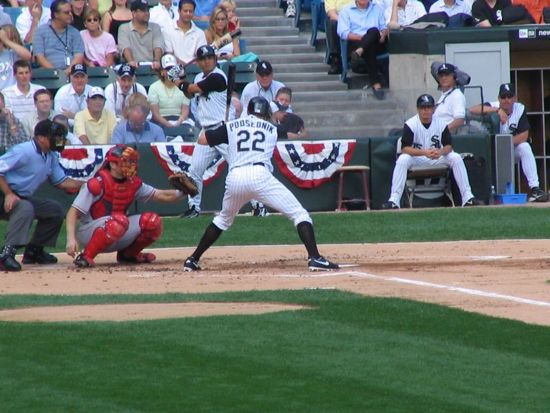 Tadahito Iguchi ondeck. GeoTagged